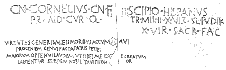 inscription from Scipio's grave, rome (check the letters on this map)